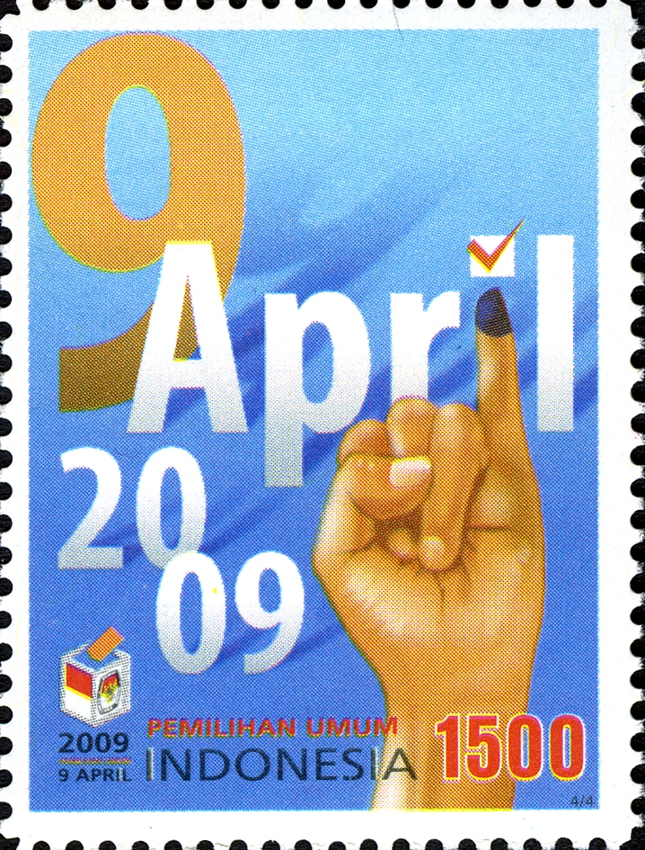 Stamps of Indonesia